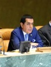 Nassir Abdulaziz Al-Nasser, President of UN General Assembly